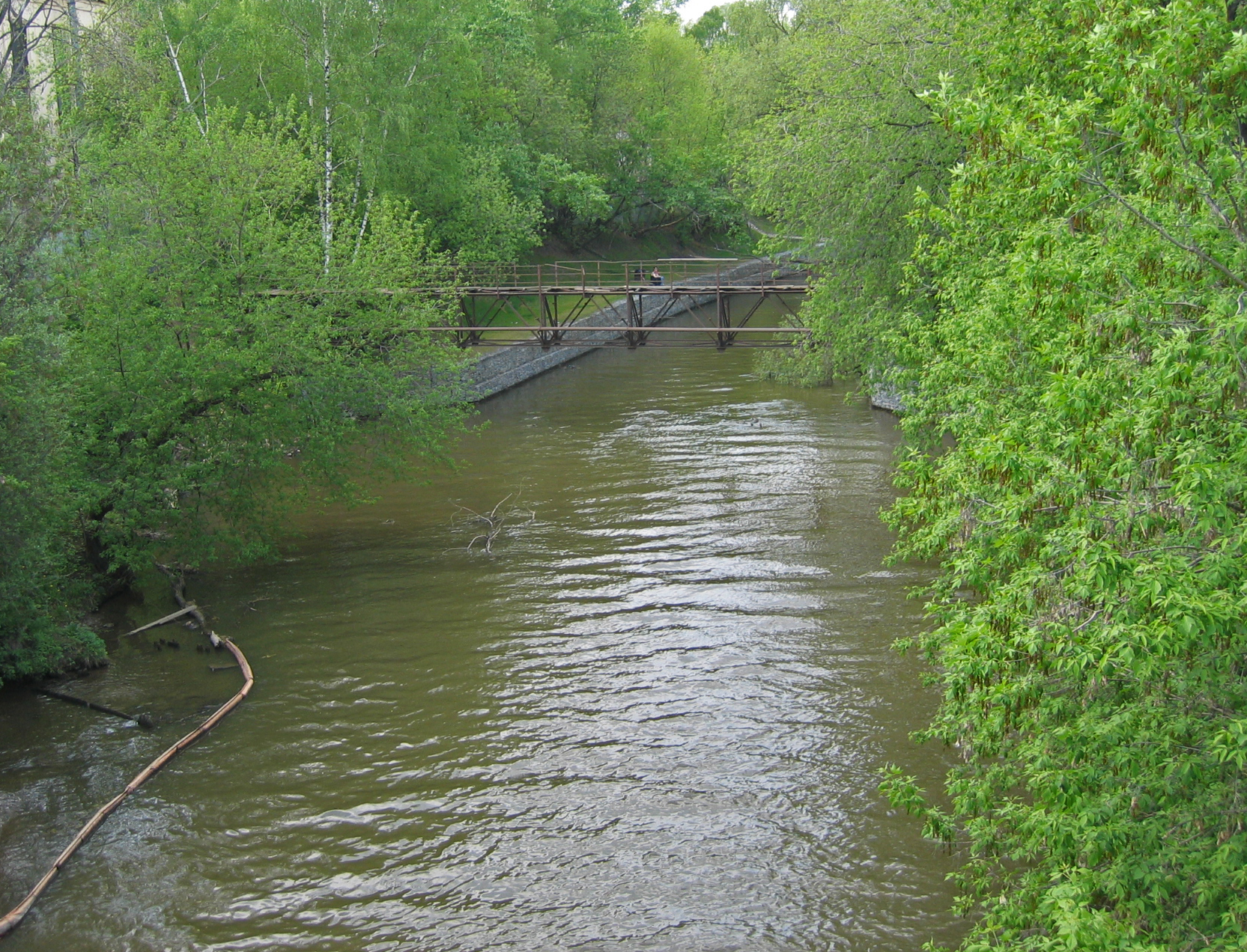 Setun River in Moscow, Russia.